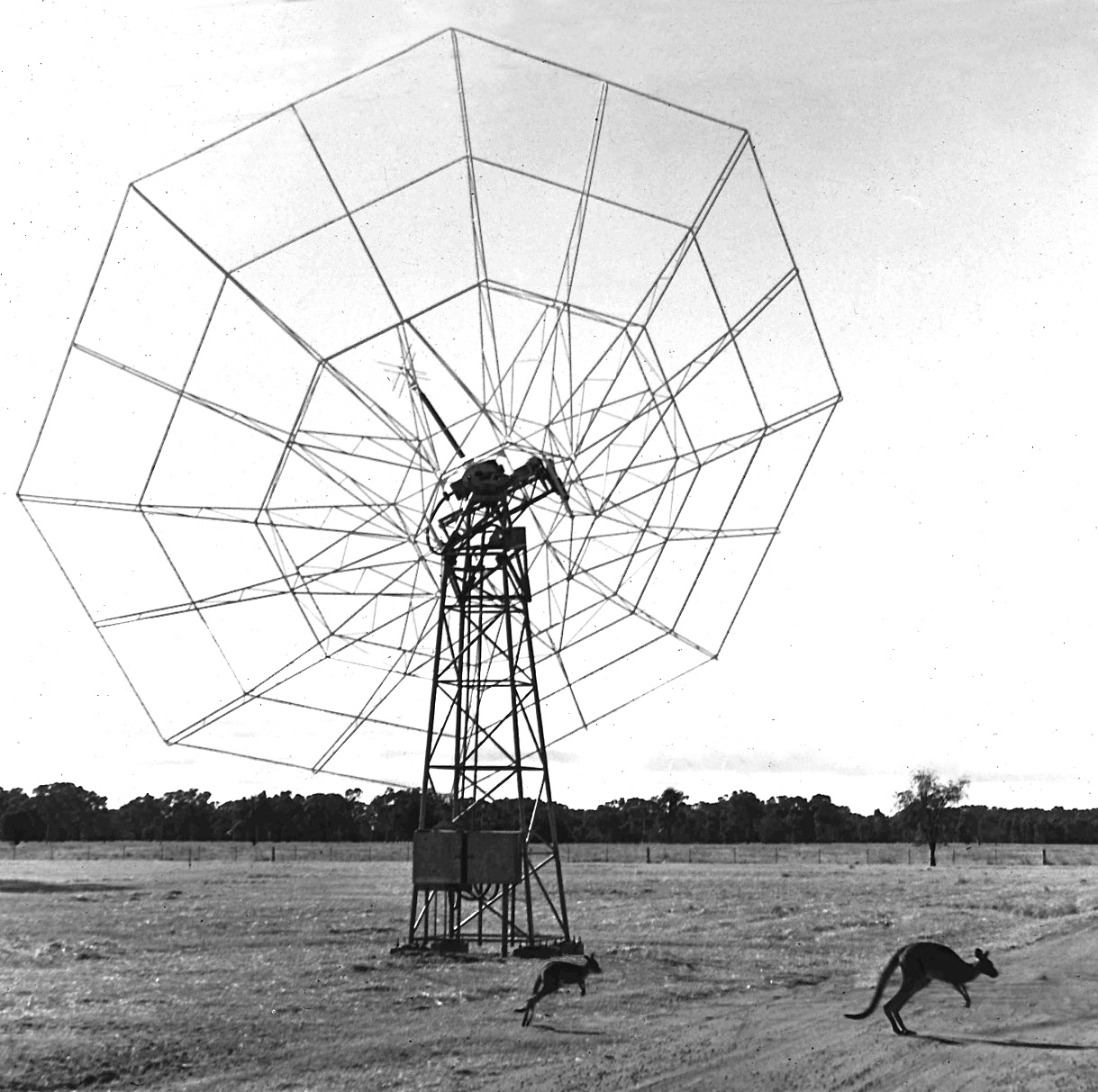 Monochrome photo of a lightly constructed, web-like "dish" antenna in a flat paddock, with two kangaroos leaping across the foreground